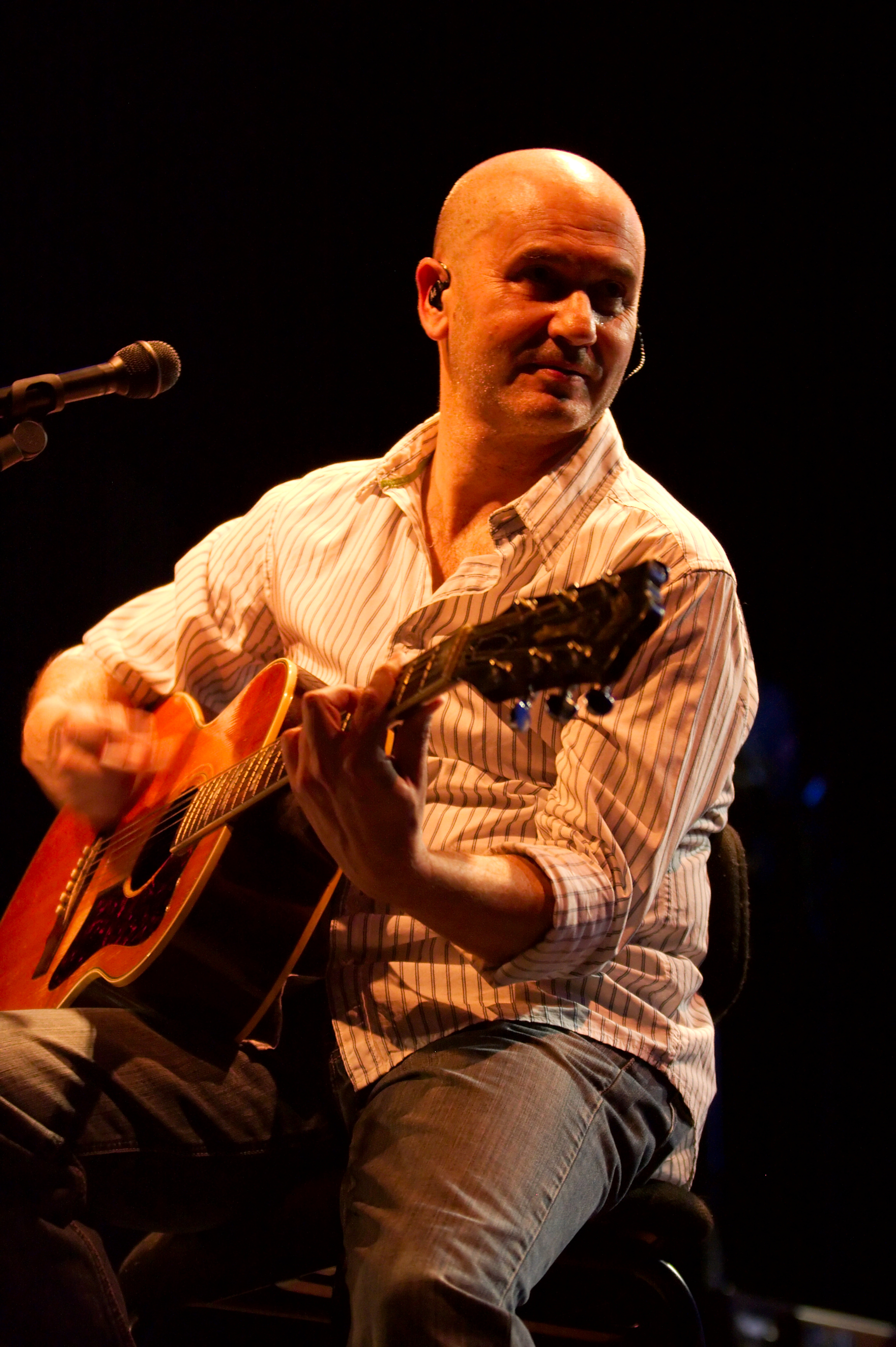 Art Mengo live at Aix-en-Provence (France) for the French song festival 2009.